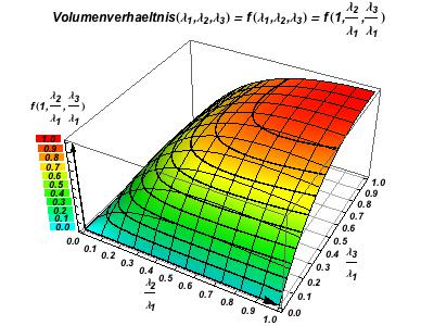 Volumeratio as a function of the Eigenvalues of a Diffusion Tensor